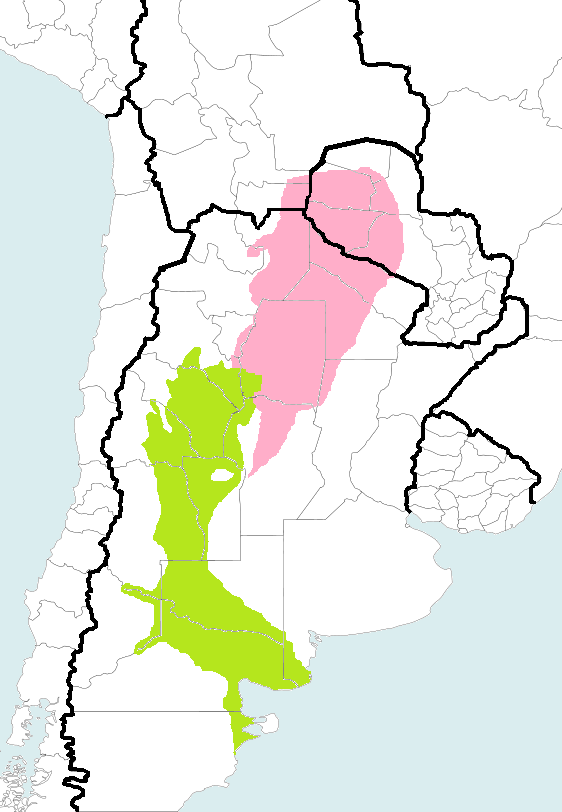 Haplogroups in Argentine Tortoise (Chelonoidis chilensis): Dry Chaco (pink); Mount of Steps and Plains (green).